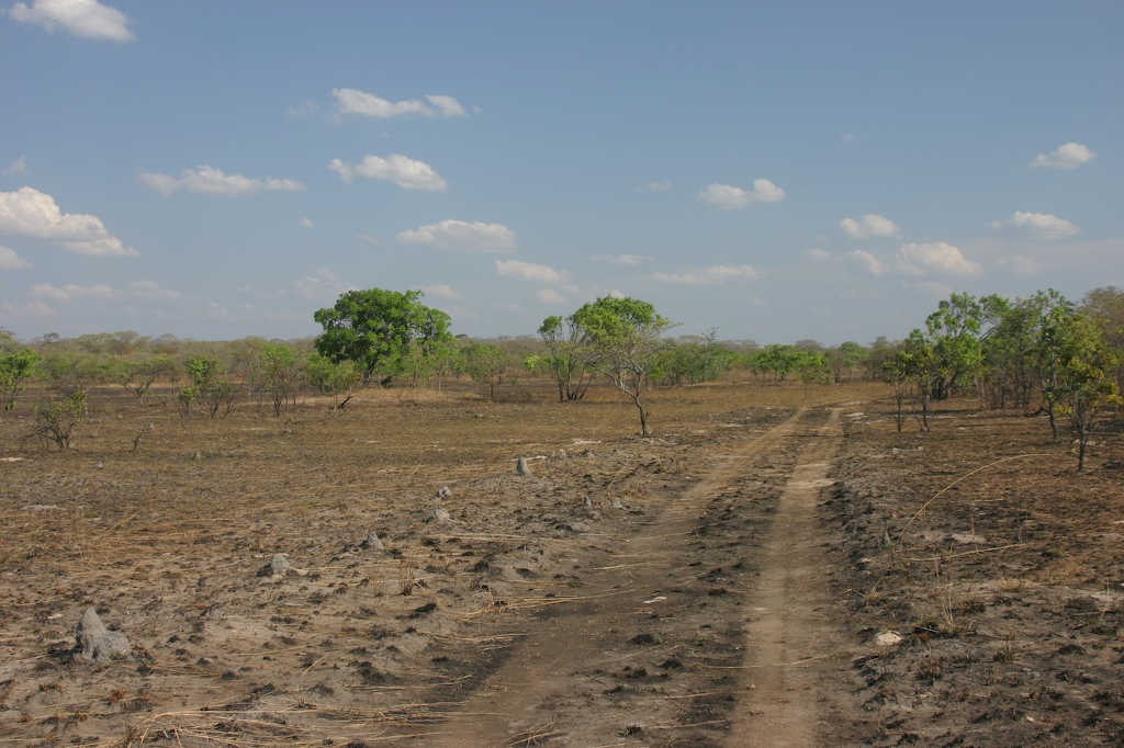 Dambo, Kasungu National Park